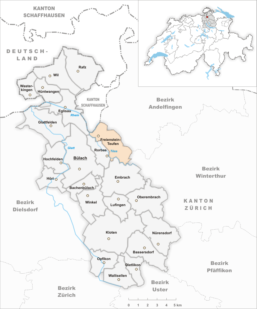 Municipality Freienstein-Teufen